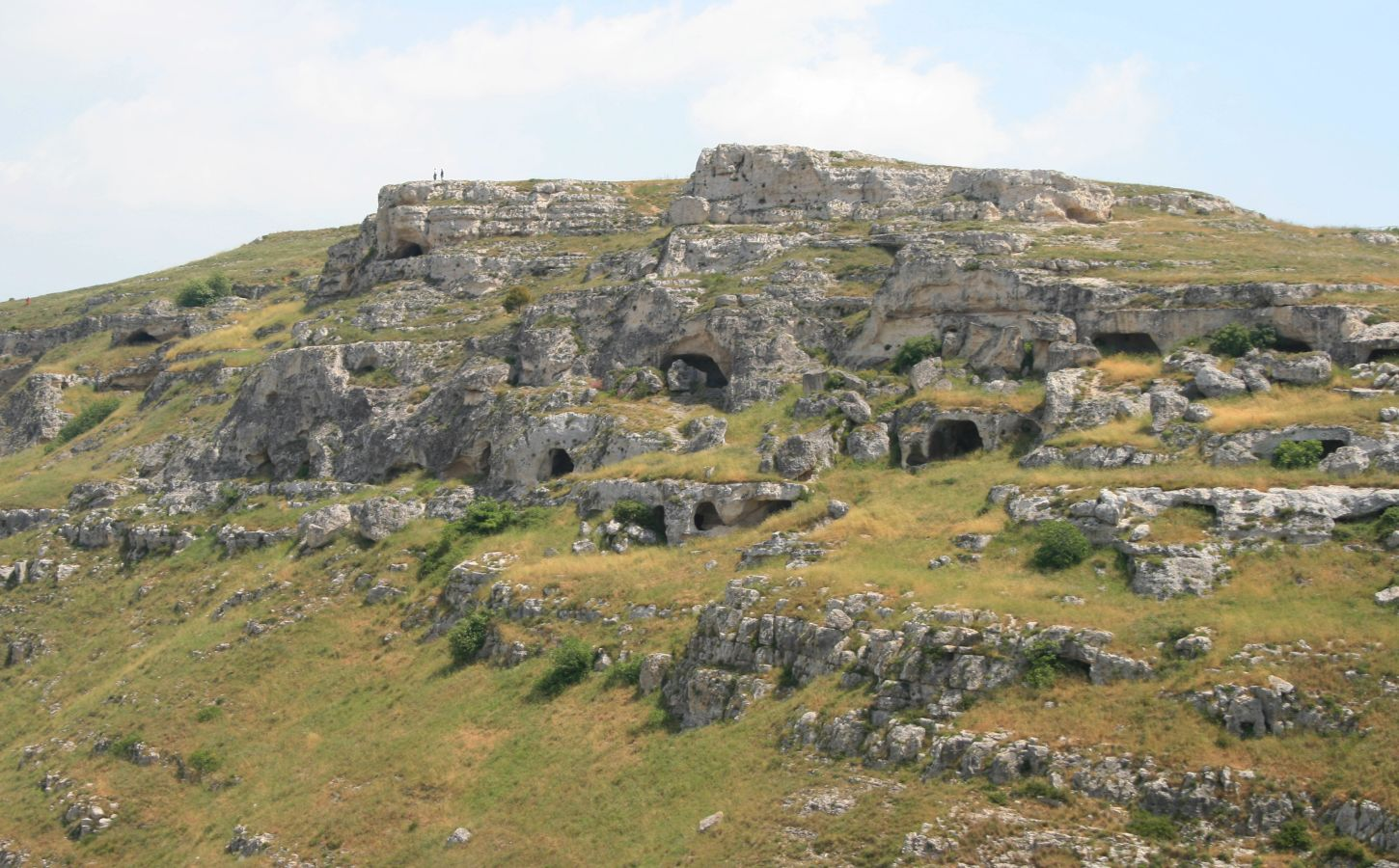 Italien/Italia/Italy: Basilicata, Prov. Matera, prähistorische Höhlenwohnungen